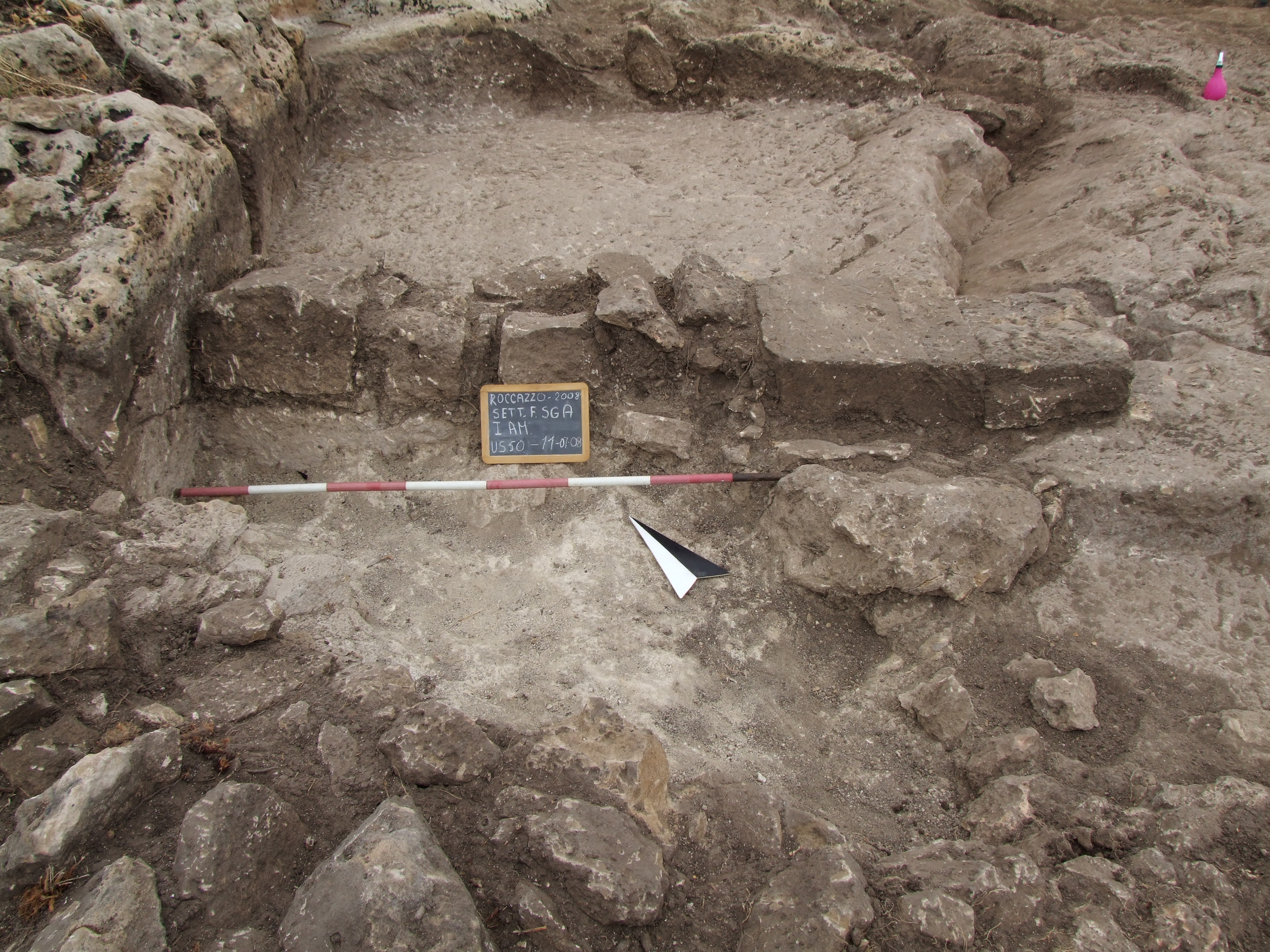 Ruins of ancient greek house in Roccazzo, Mazara del Vallo